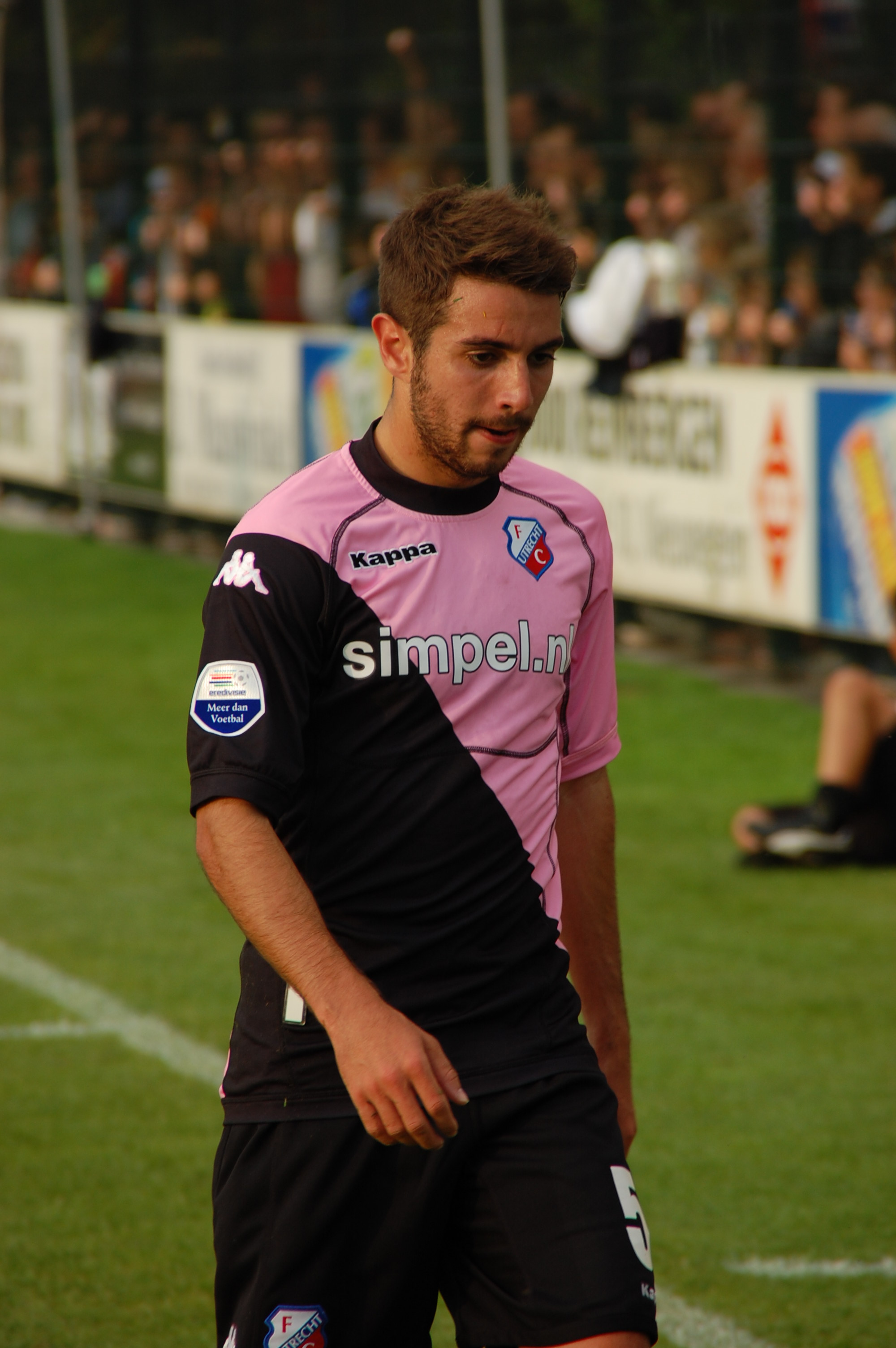 The Australian Soccer player Michael Zullo playing for FC Utrecht.